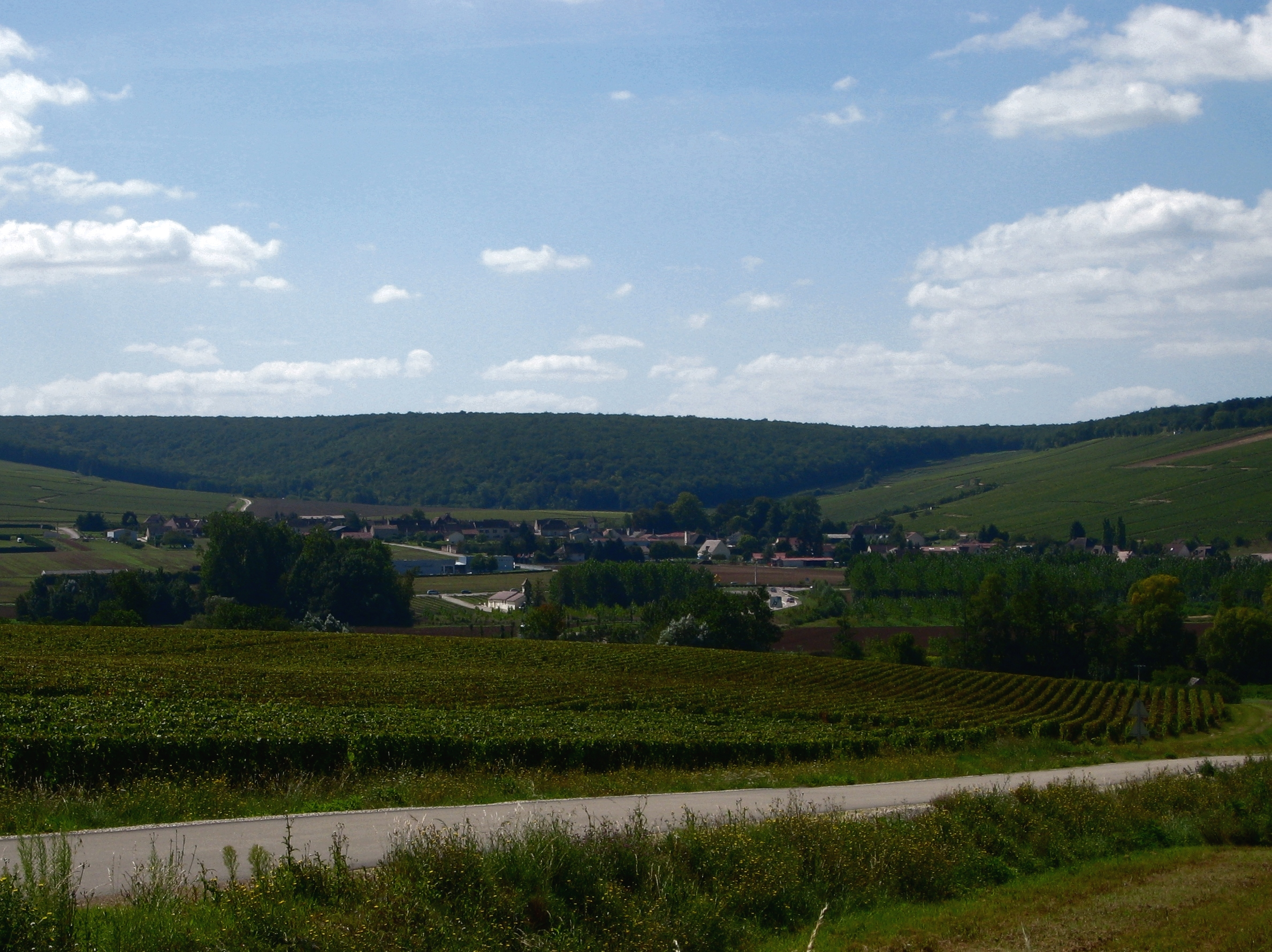 View of Chablis, Burgundy, from the north, with the Premier Cru vineyard of Vaulorent in the foreground, in the background I think its Montsmains on the right and Vaugiraud/Vosgros on the left